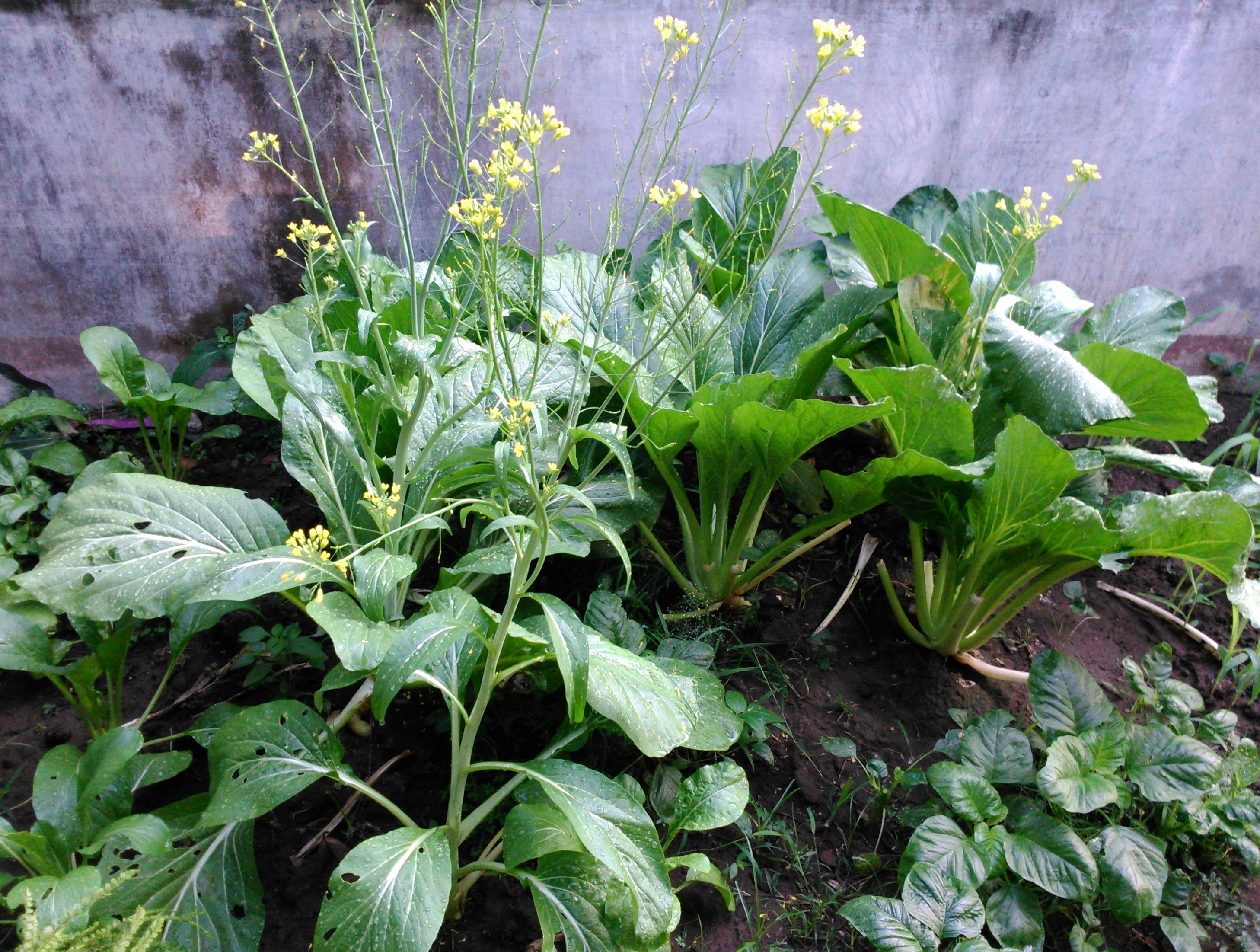 Choy sum grown in houseyard. Reproductive and (late) vegetative form.